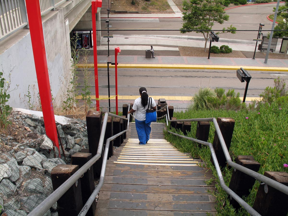 Grossmont Transit Center Station